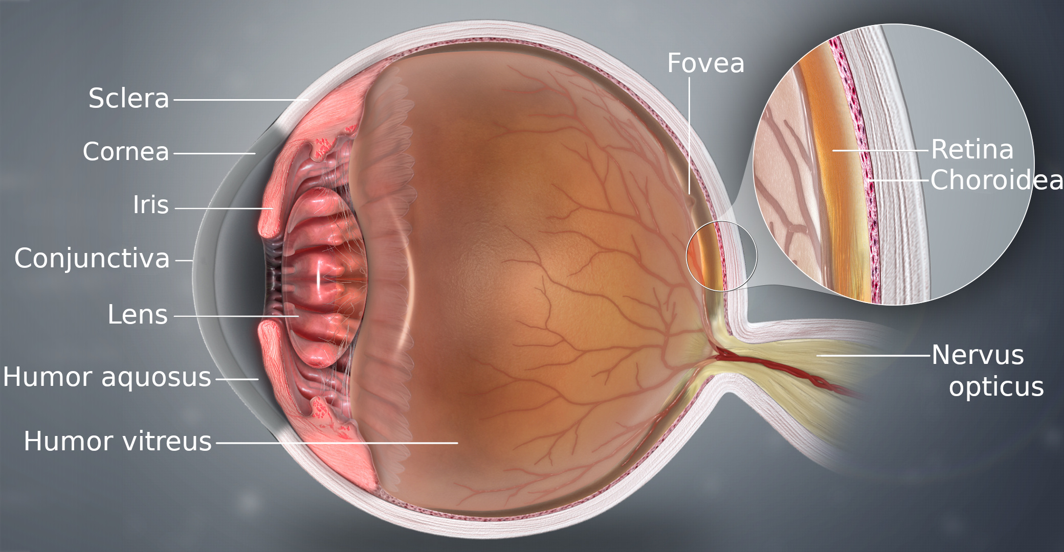 A 3D medical animation still shot depicting cornea, iris, lens, retina & choroid.